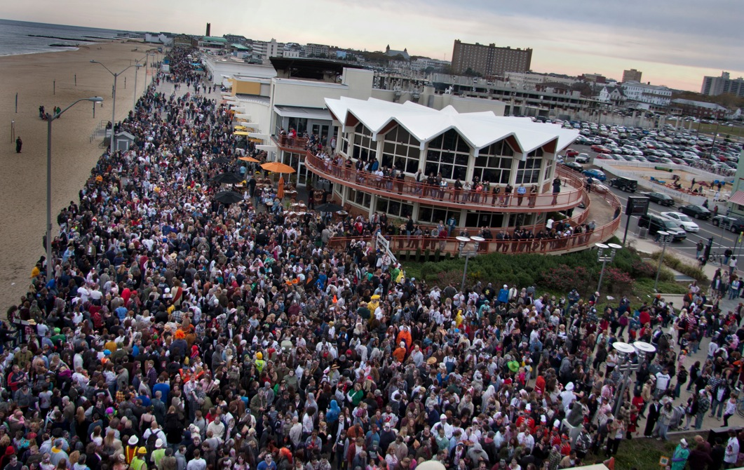 Crowd photo of the Guinness World Record™ breaking New Jersey Zombie Walk held on October 30th, 2010. 4,093+ zombies attended the event.